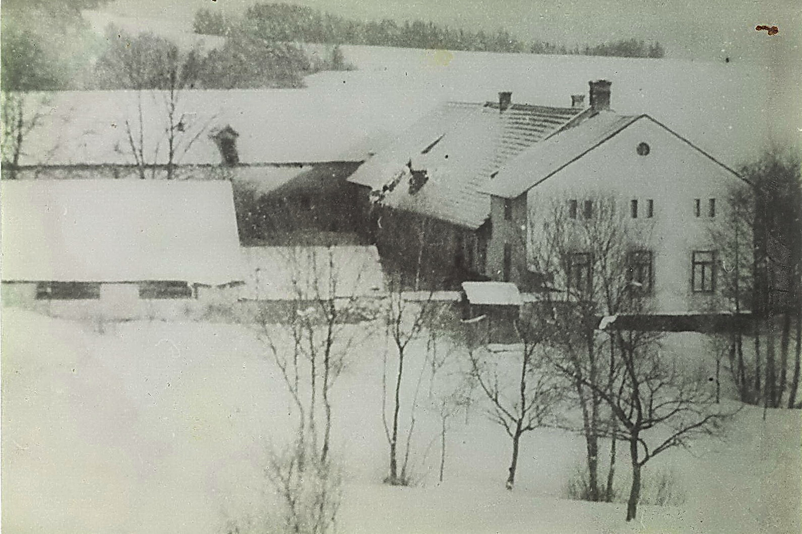 stav statku v Loukově u dolního města z doby někdy kolem 60. let